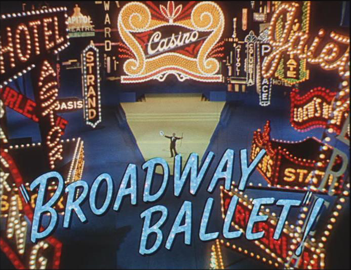 Screenshot of Broadway Melody ballet from Singin' in the Rain trailer